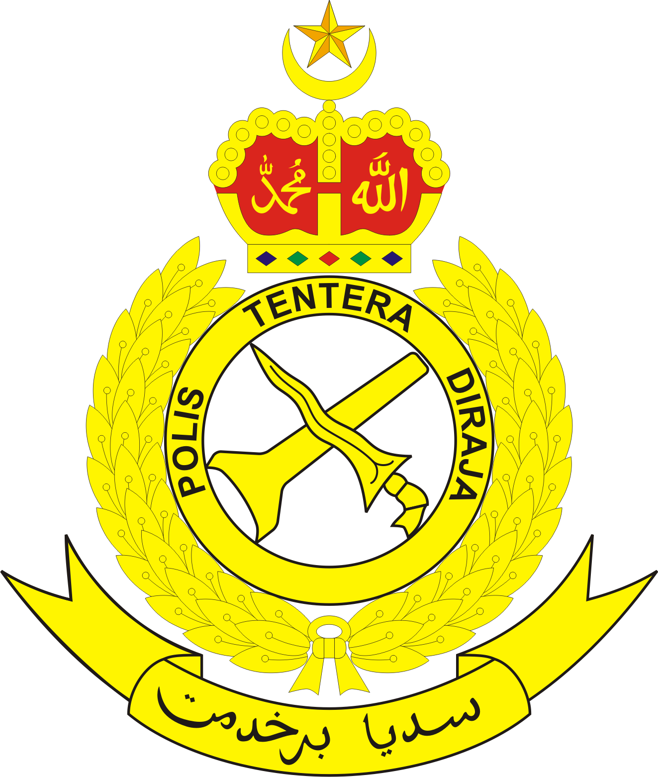 An official crest of Royal Military Police Corps of Malaysia.